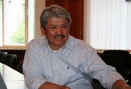 Baktybek "Bakyt" Beshimov